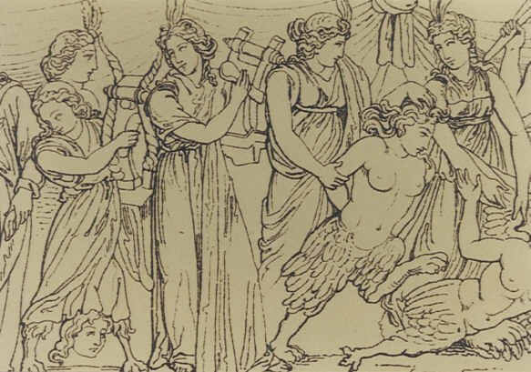 Proserpinas comrades are turned into sirens. Mythologischer Bildatlas, 1885.